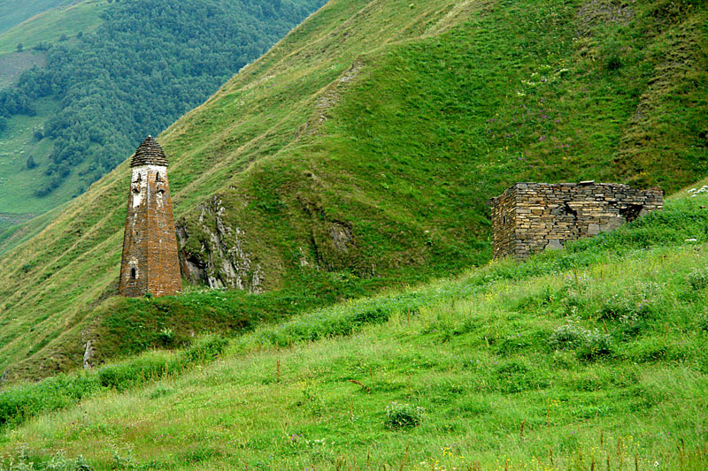 Lebaiskari fortress, Khevsureti, GEORGIA, Caucasus